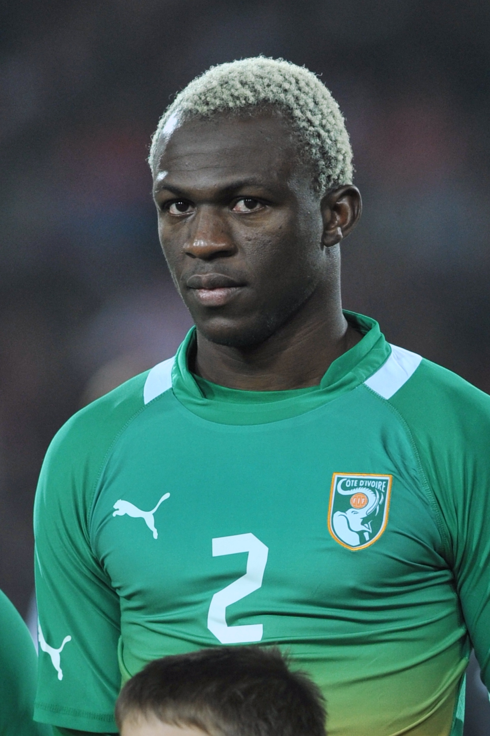 ÖFB freundschaftliches Länderspiel - Österreich vs Elfenbeinküste am 14. November 2012 The making of this work was supported by Wikimedia Austria. For other files made with the support of Wikimedia Austria, please see the category Supported by Wikimedia Österreich. Elfenbeinküste Nr. 2: Arouna Koné